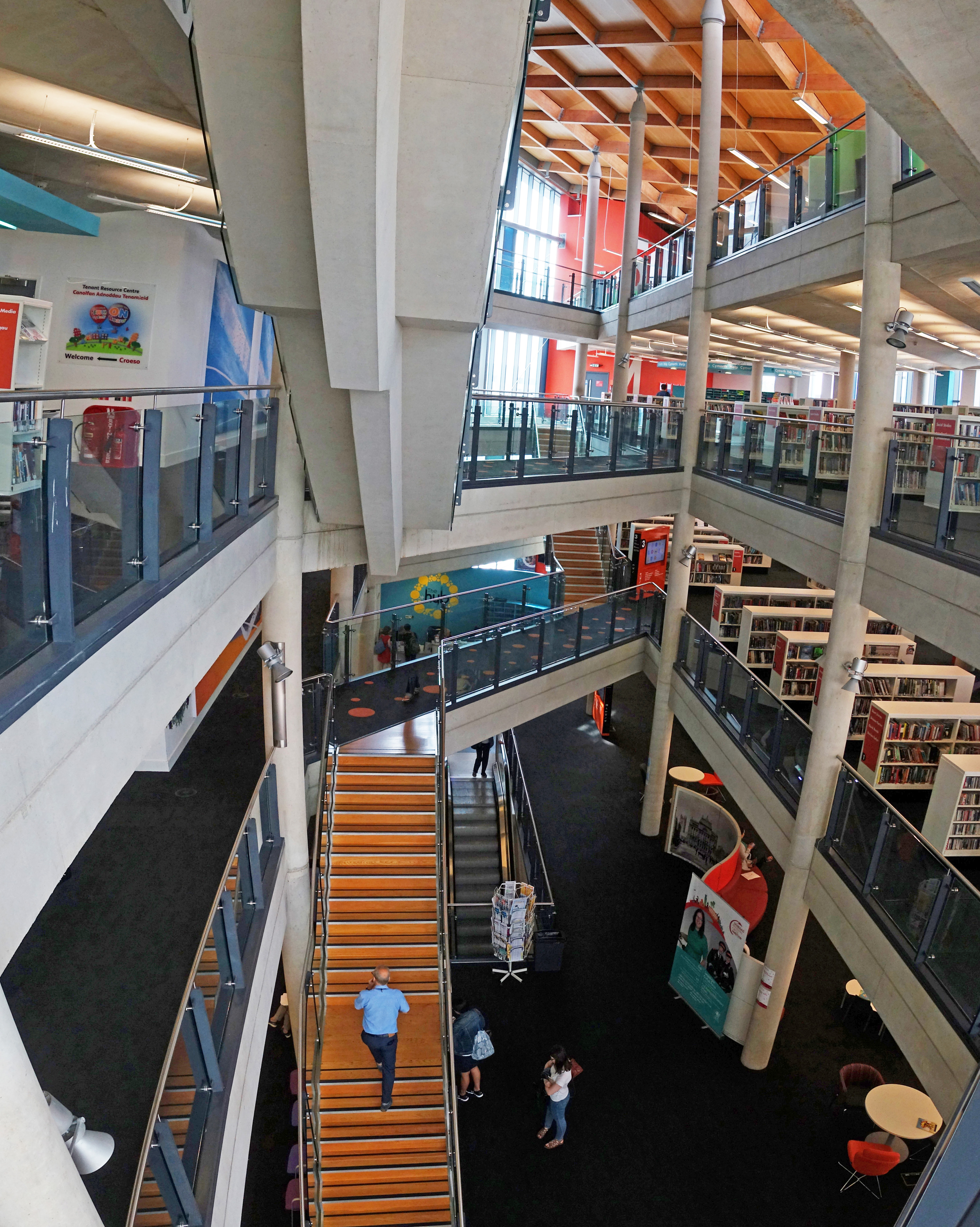 Cardiff Central Library interior.